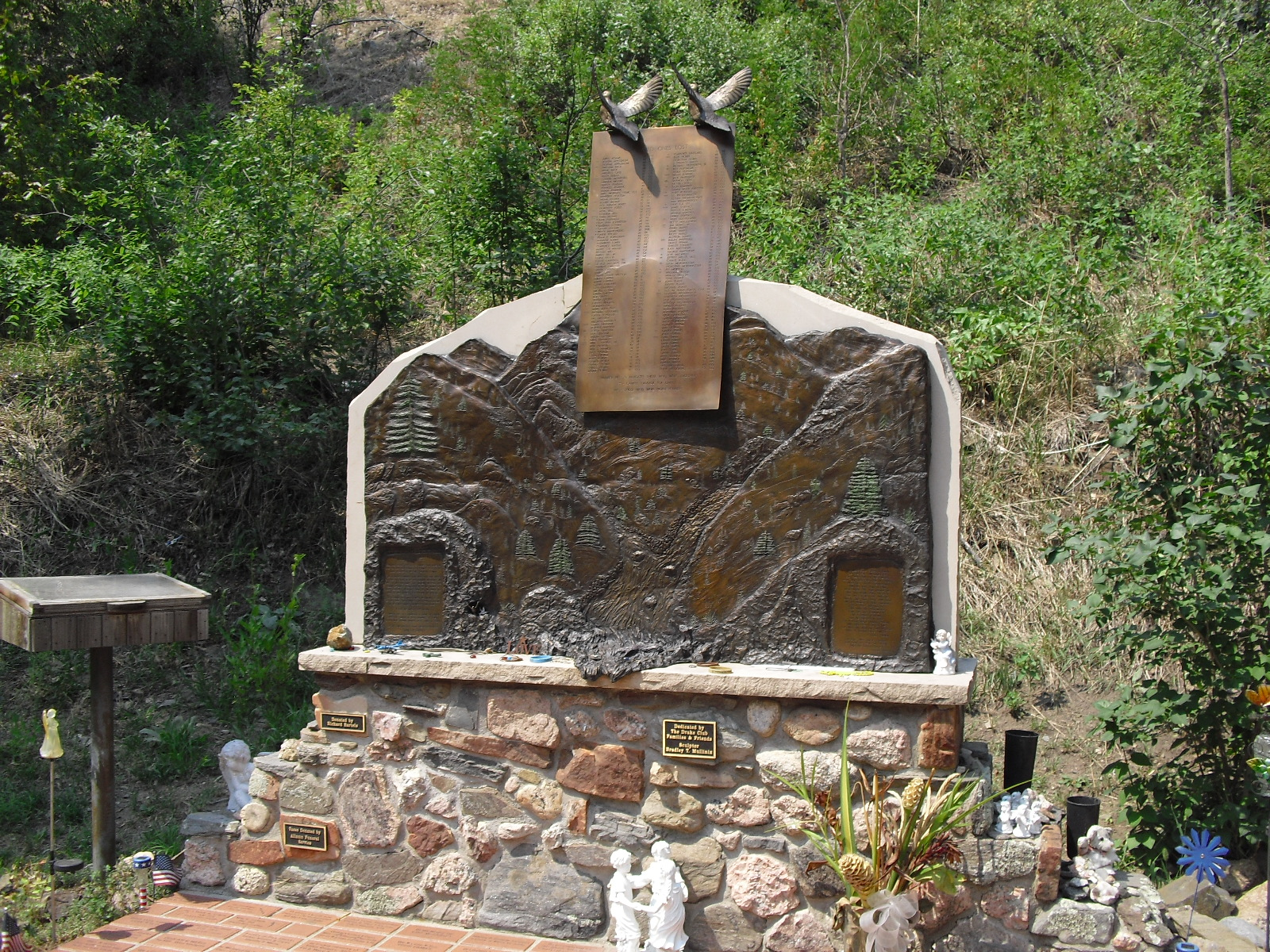 More than 140 people were killed in the flash flood that ravaged the Big Thompson River canyon in Colorado on July 31, 1976. This memorial in the town of Drake commemorates the lives lost.